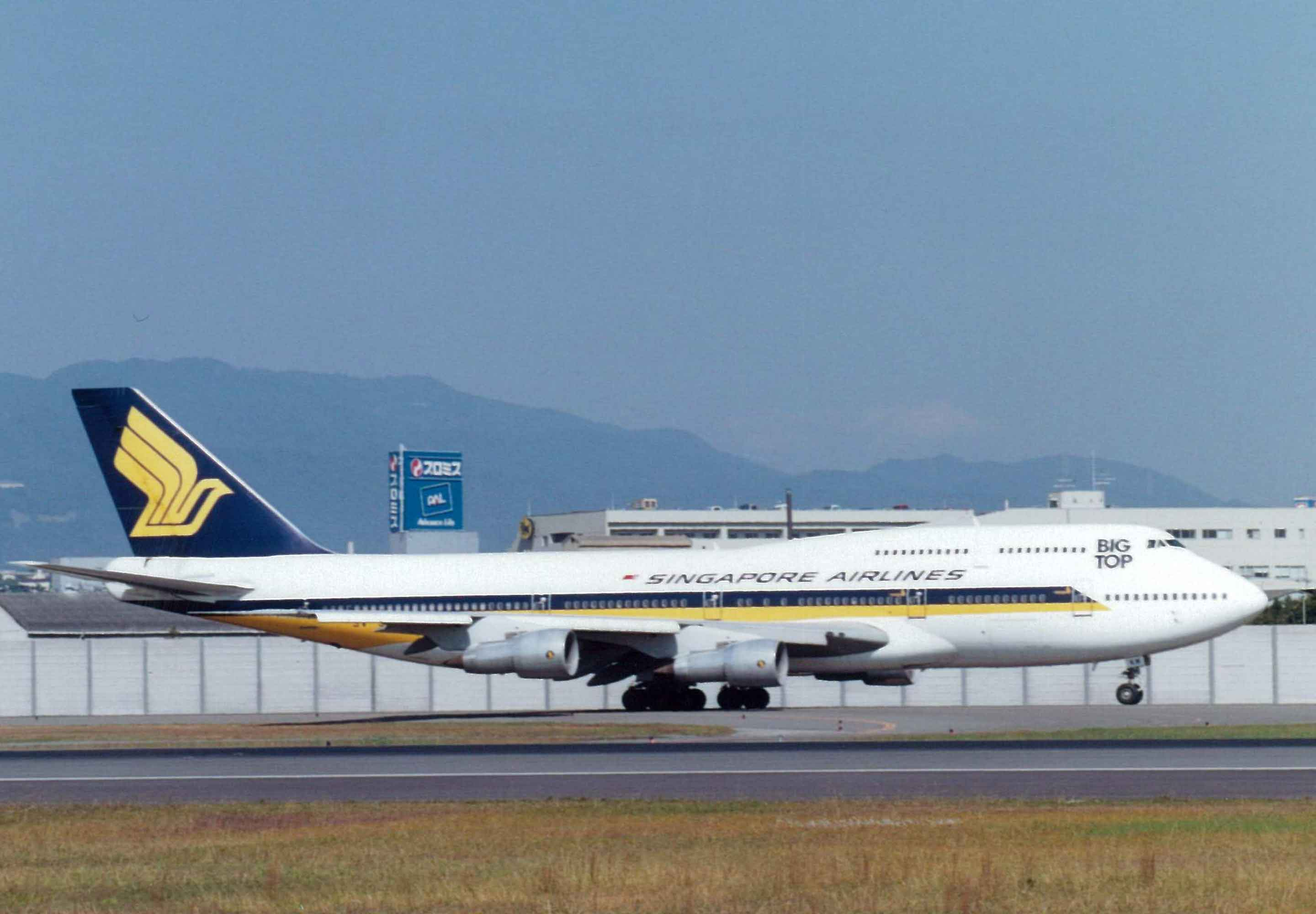 It is Airliners which it photographed in Itami, Osaka Airport.